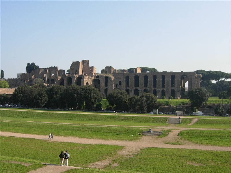 Rome Aventine Trastevere